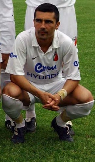 Nikola Ignjatijevic with FK Javor in 2008.